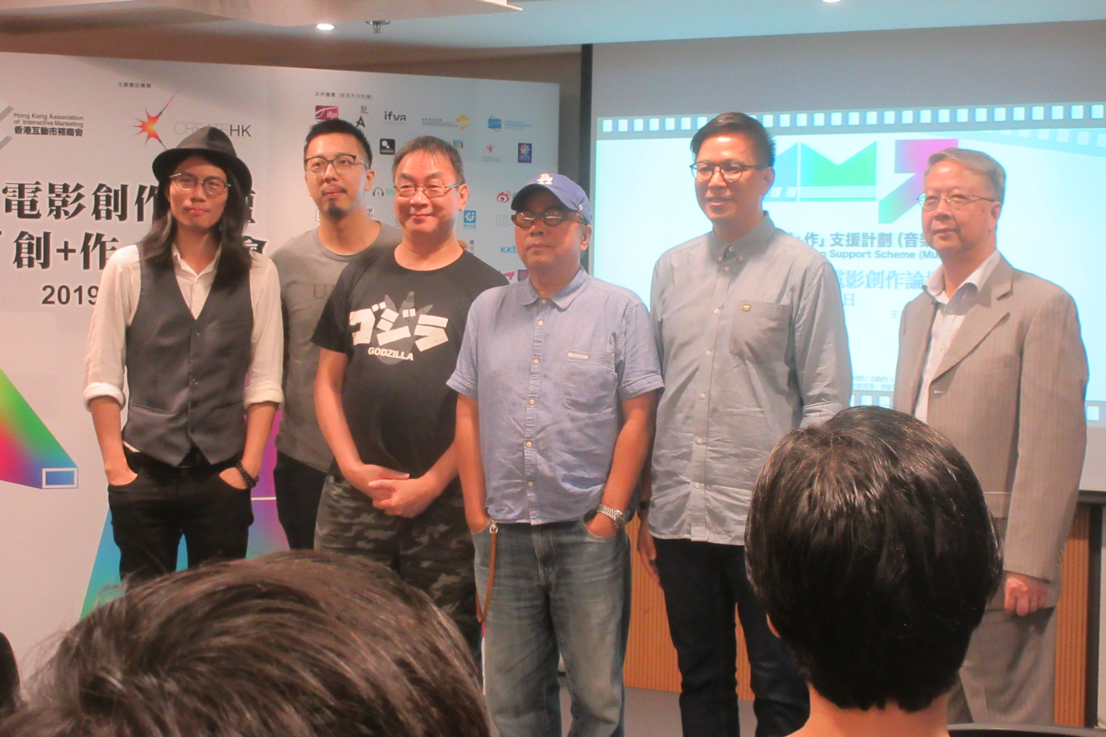 HK QB 鰂魚涌 Quarry Bay talk Microfilm-music HKAIM Hong Kong Association of Interactive Marketing 香港互動市務商會 HKFYGroup 香港青年協會大廈 The Hong Kong Federation of Youth Groups Building in July 2019